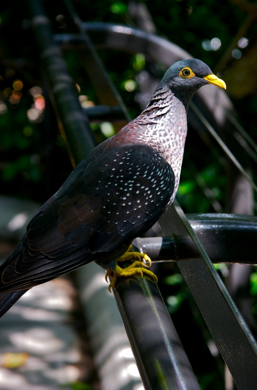 African Olive Pigeon - Columba arquatrix at San Diego Zooyellow.jpg